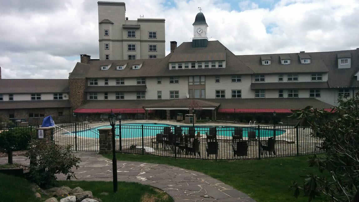 Inn At Pocono Manor Pool & Front of Main Building